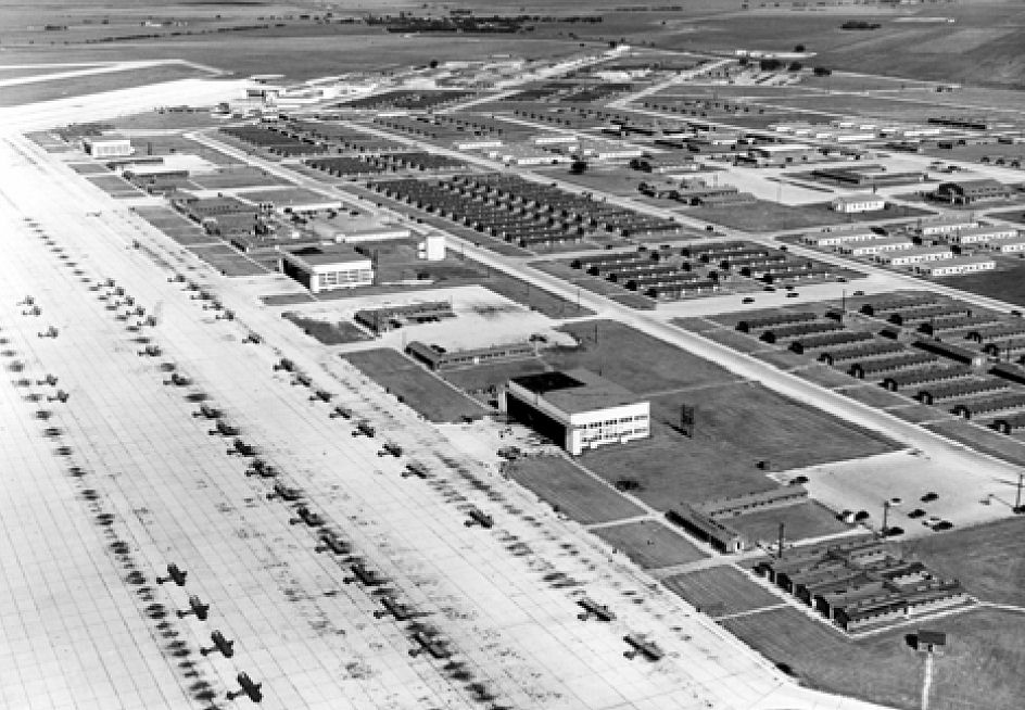 In May 1946 San Marcos Field, Texas, shown above, came back on active status to operate the AAF helicopter and liaison schools, which transferred from Sheppard Field, Texas, late in the month. At the same time, the schools moved from Technical Training Command control to Flying Training Command